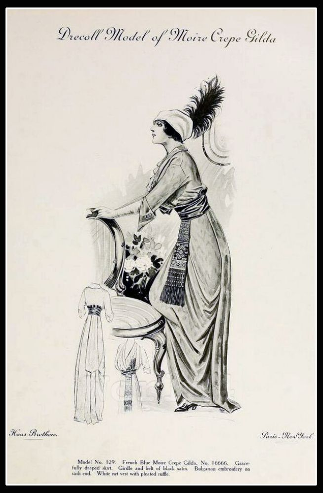 Fashion Design by Christoph Drecoll (1851–1939). French Blue Moire Crepe Gilda. Gracefully draped skirt. Girdle and belt of black satin. Bulgarian embroidery on sash end. White net vest with pleated ruffle. Cocktail dress by couturier Baron Christoph von Drecoll. Published by Haas brothers.